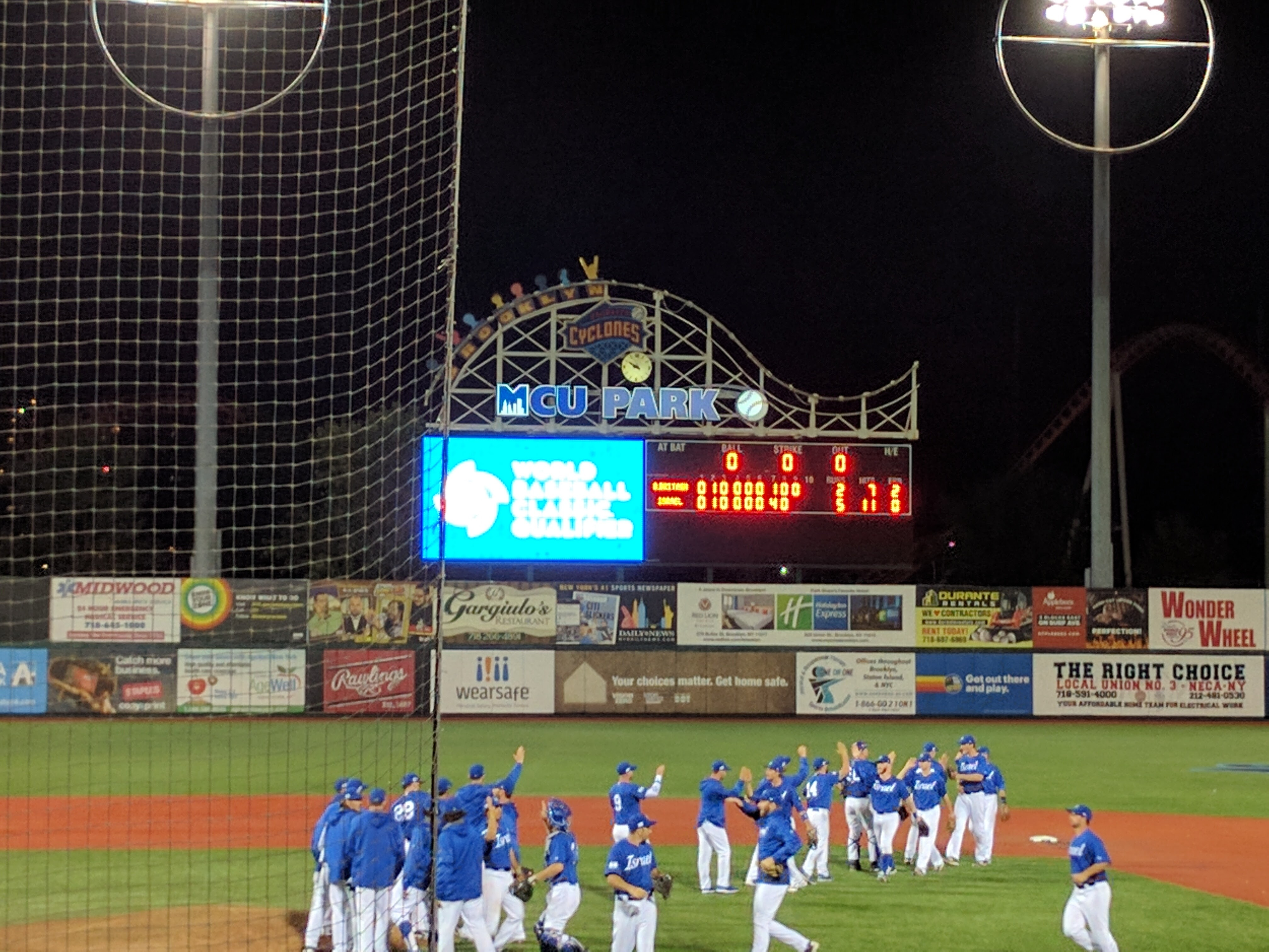 Image I took of Israel celebrating on the field after the 5-2 victor over UK during the World Baseball Classic qualifier. - GalatzTalk 14:49, 26 September 2016 (UTC)